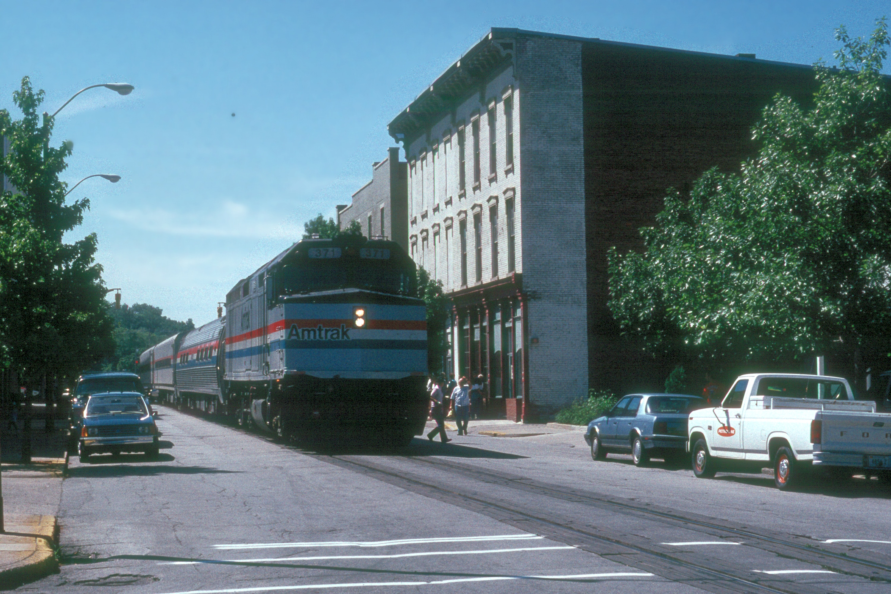 The northbound Hoosier State stopped for passengers on 5th Street in Lafayette, Indiana in September 1990. Trains had to run down the street until a bypass was completed in 1994.